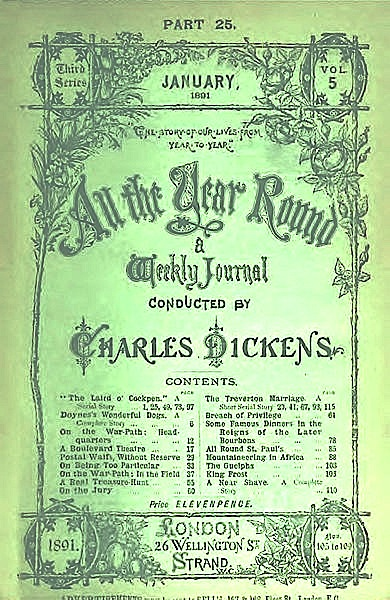 Cover of magazine 3rd series "All the Year Round" by Charles Dickens